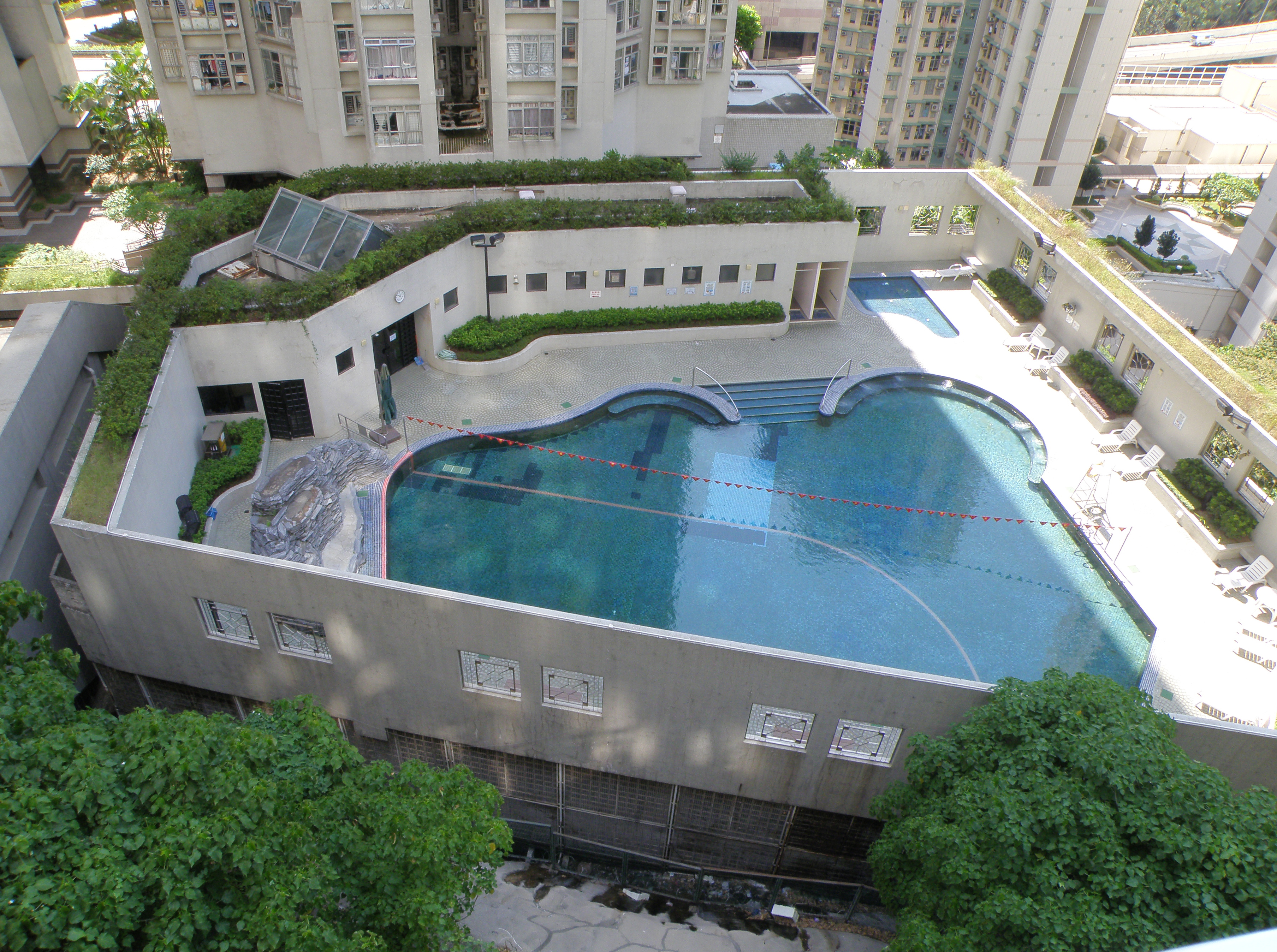 Sceneway Garden in Lam Tin, Hong Kong.